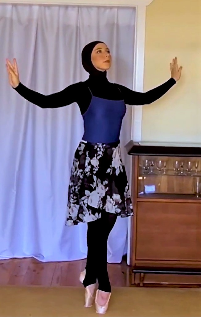 Stephanie Kurlow, Freelance Ballerina First Hijabi Ballerina, Australia 32 premier ballerinas from 22 dance companies in 14 countries perform Le Cygne (The Swan) variation sequentially in support of Swans for Relief. Organized by Misty Copeland and Joseph Phillips, 100% of the funds raised will be distributed to each dancer’s company’s COVID-19 relief fund, or other arts/dance-based relief fund in the event that a company is not set up to receive donations. To donate please visit, Ballet companies are largely dependent on revenue from performances to pay their dancers and fund their operations, but due to the coronavirus pandemic, all performances have been halted. Consequently, many dancers are unable to depend on paychecks and are facing the hardship of paying rent and/or buying food and other necessities. Le Cygne (The Swan) with music by Camille Saint-Saëns, performed by cellist Wade Davis (USA), with choreography by Michel Fokine by kind permission of the Fokine Estate-Archive.